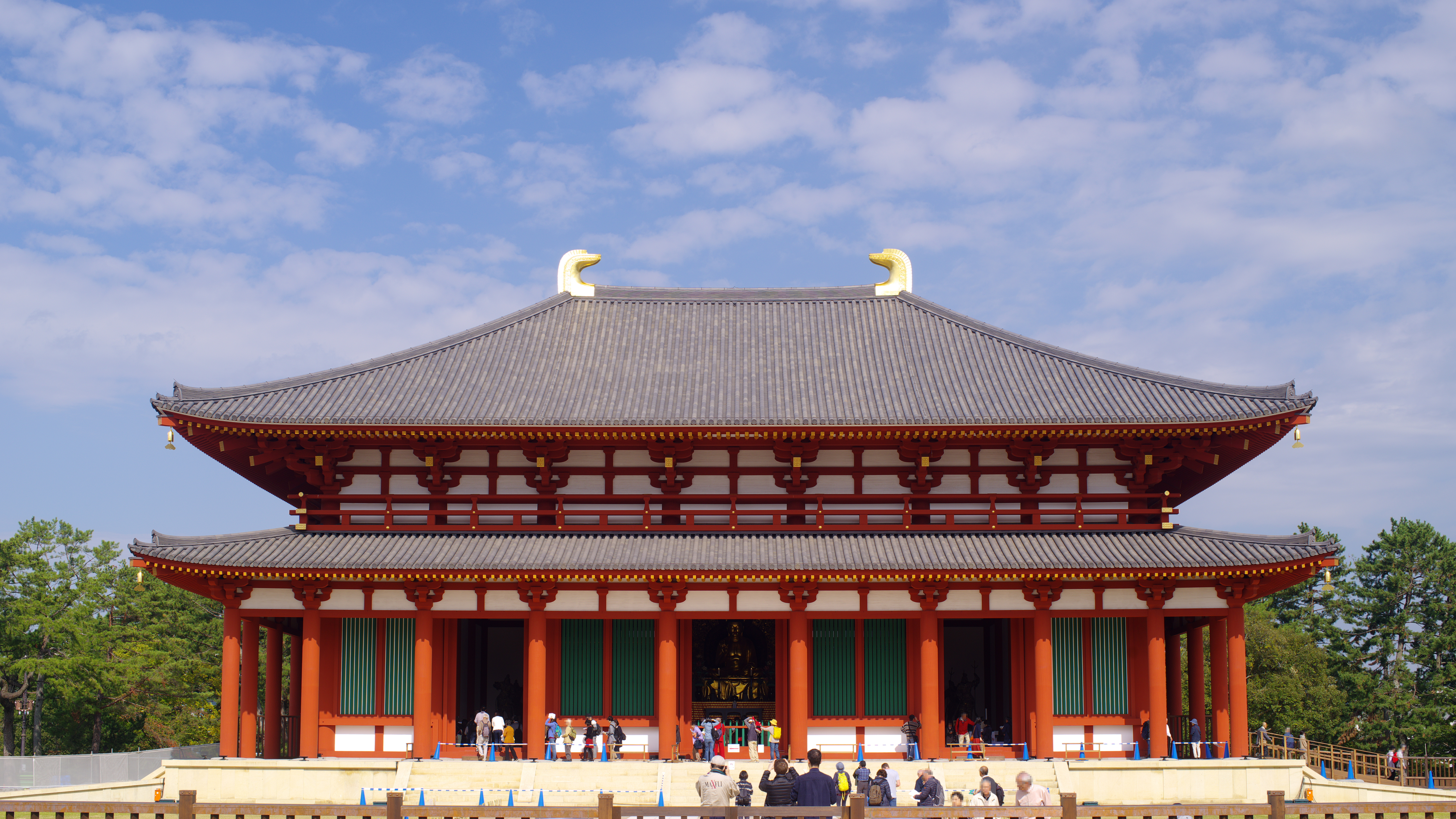 Chū-kondō(Central Golden Hall) of Kōfuku-ji Nara City Nara prefecture